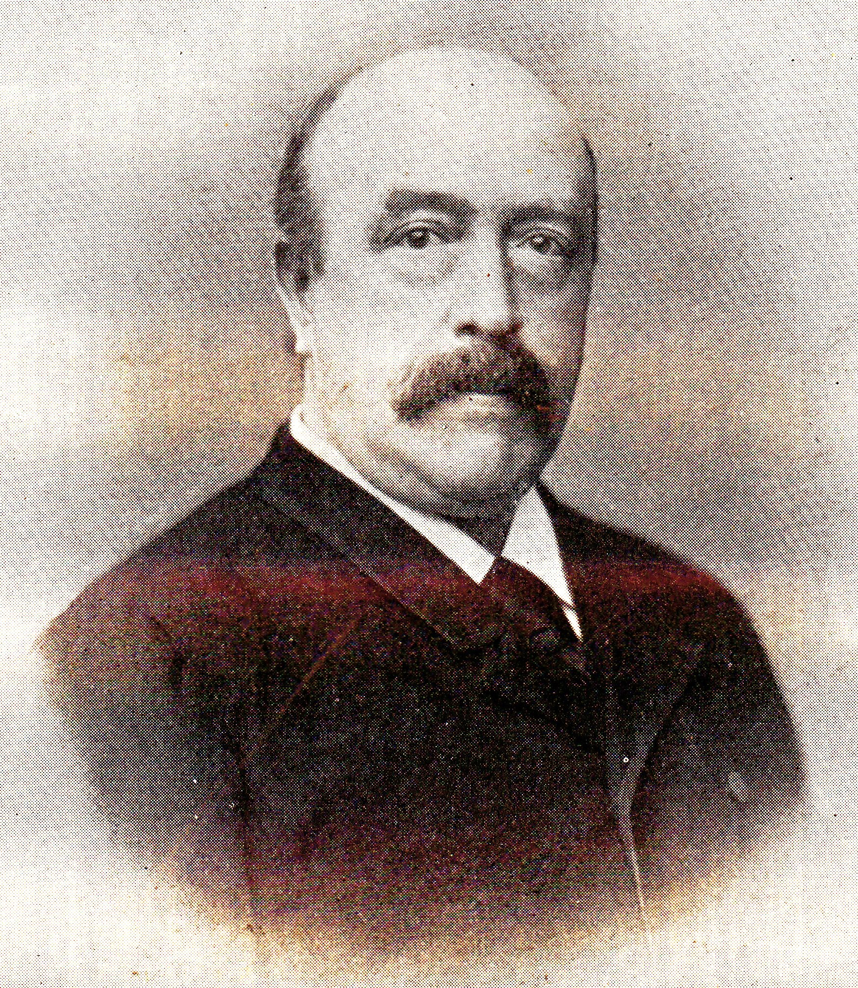 Gerard Keller